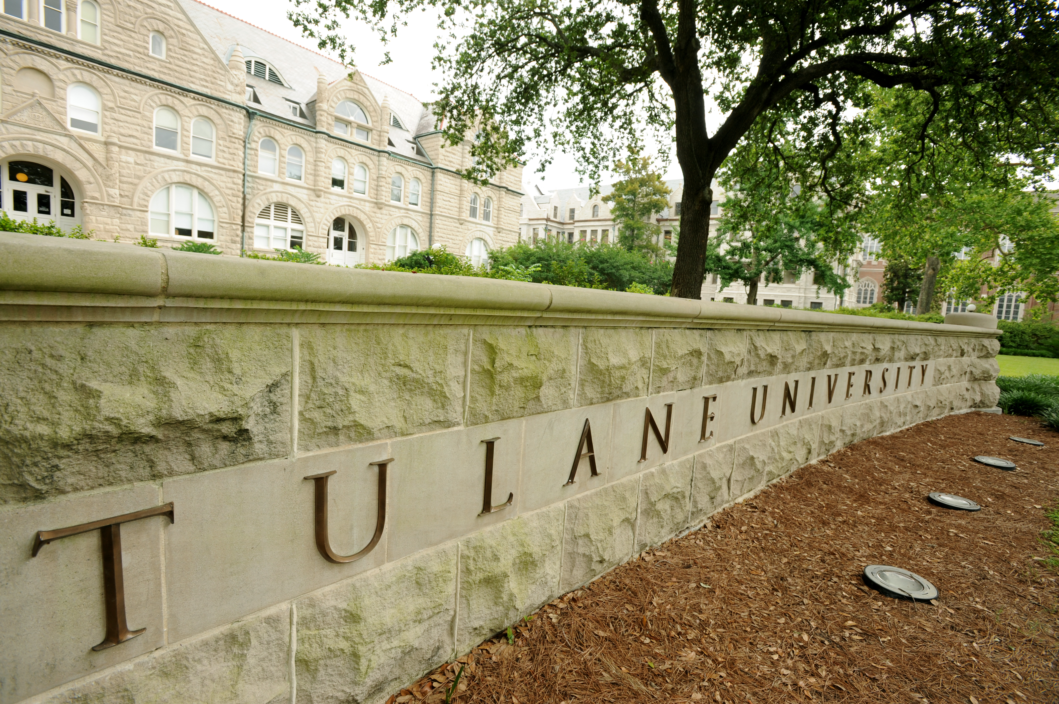 Tulane University